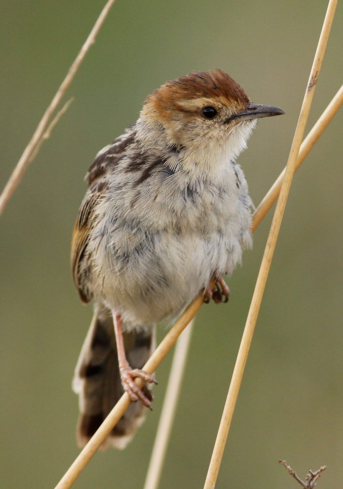 Levaillant's Cisticola, Cisticola tinniens at Rietvlei Nature Reserve, Gauteng, South Africa